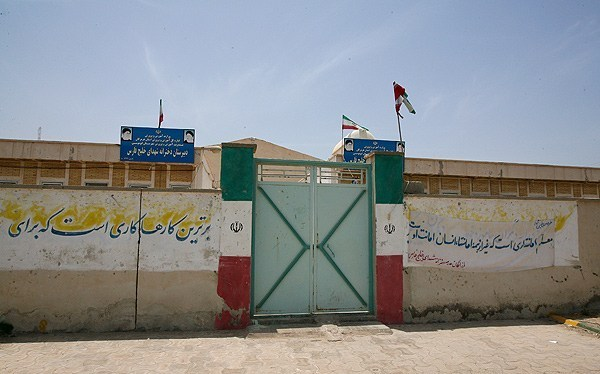 Abu Musa Island's high school